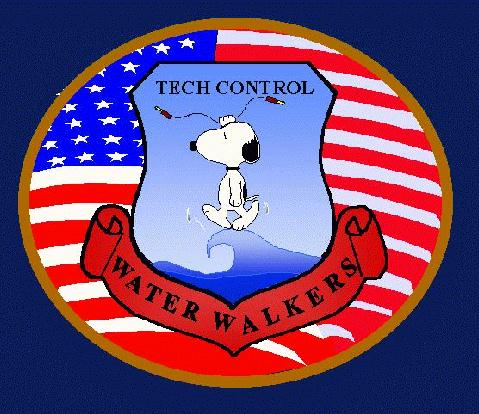 This is insignia for US Air Force Tech Controllers